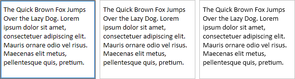 ScreenCopy ClearType Adjustment Windows 7 Part 3/4: Still under investigation